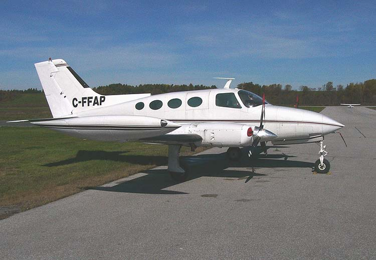 A 1967 model Cessna 402 at CYND Gatineau Airport Quebec